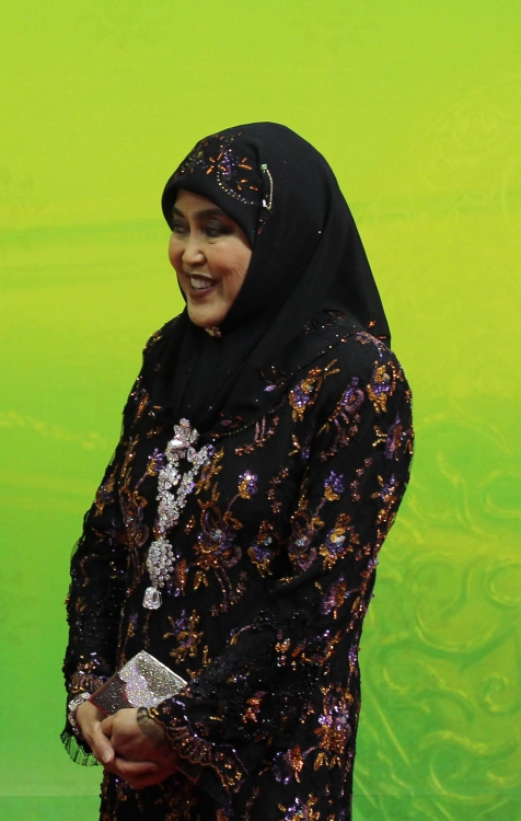 Queen Saleha Mohamed Alam of Brunei.